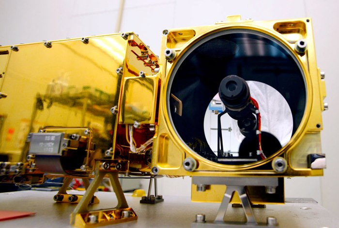 On August 5, 2012, the Curiosity rover touched down on the surface of Mars. The ChemCam instrument package, developed at Los Alamos National Laboratory, is a device mounted on the Mars Curiosity rover that uses two remote sensing instruments: the Laser-Induced Breakdown Spectrometer (LIBS) and a Remote Micro-Imager (RMI). The LIBS fires a powerful laser that determines chemical compositions of rock and soil samples, while the RMI takes photos of the samples within the rover's vicinity. In this photo, the ChemCam is being prepared in the clean room prior to the launch of NASA's Mars Science Laboratory mission.